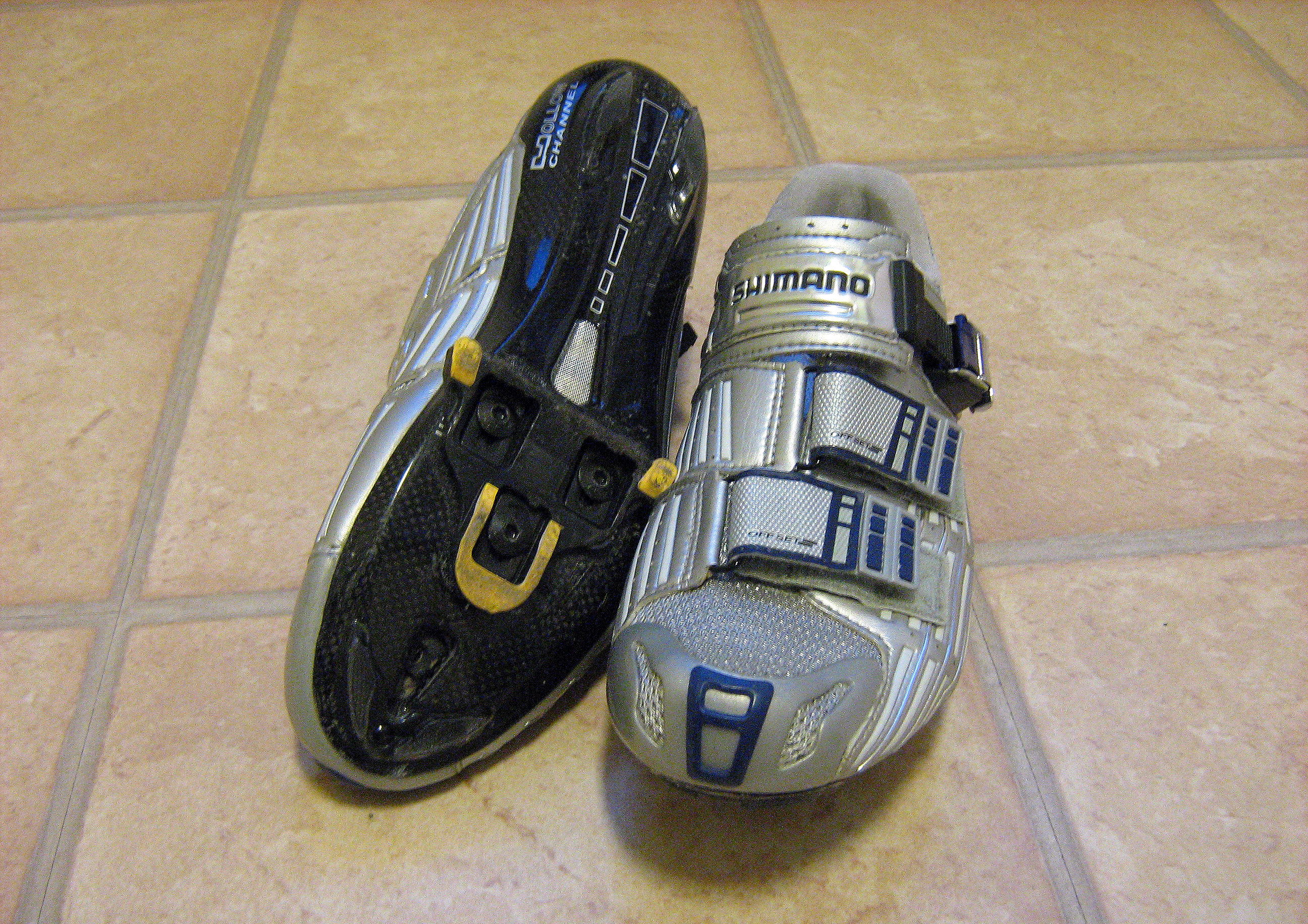 Shimano cycling shoes with clipless pedal system SPD-SL